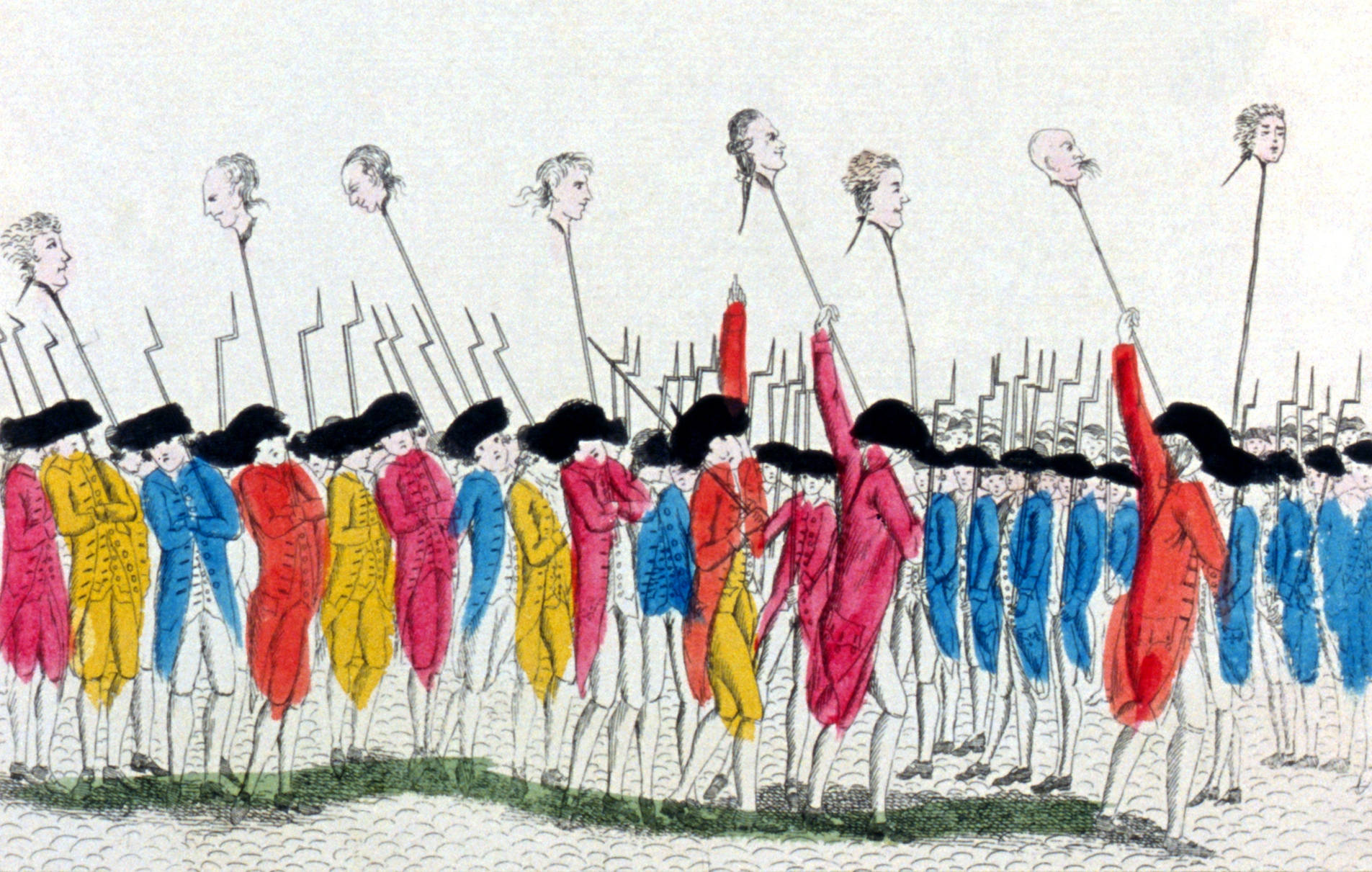 A 1789 French hand tinted etching that depicts the storming of the Bastille during the French Revolution.